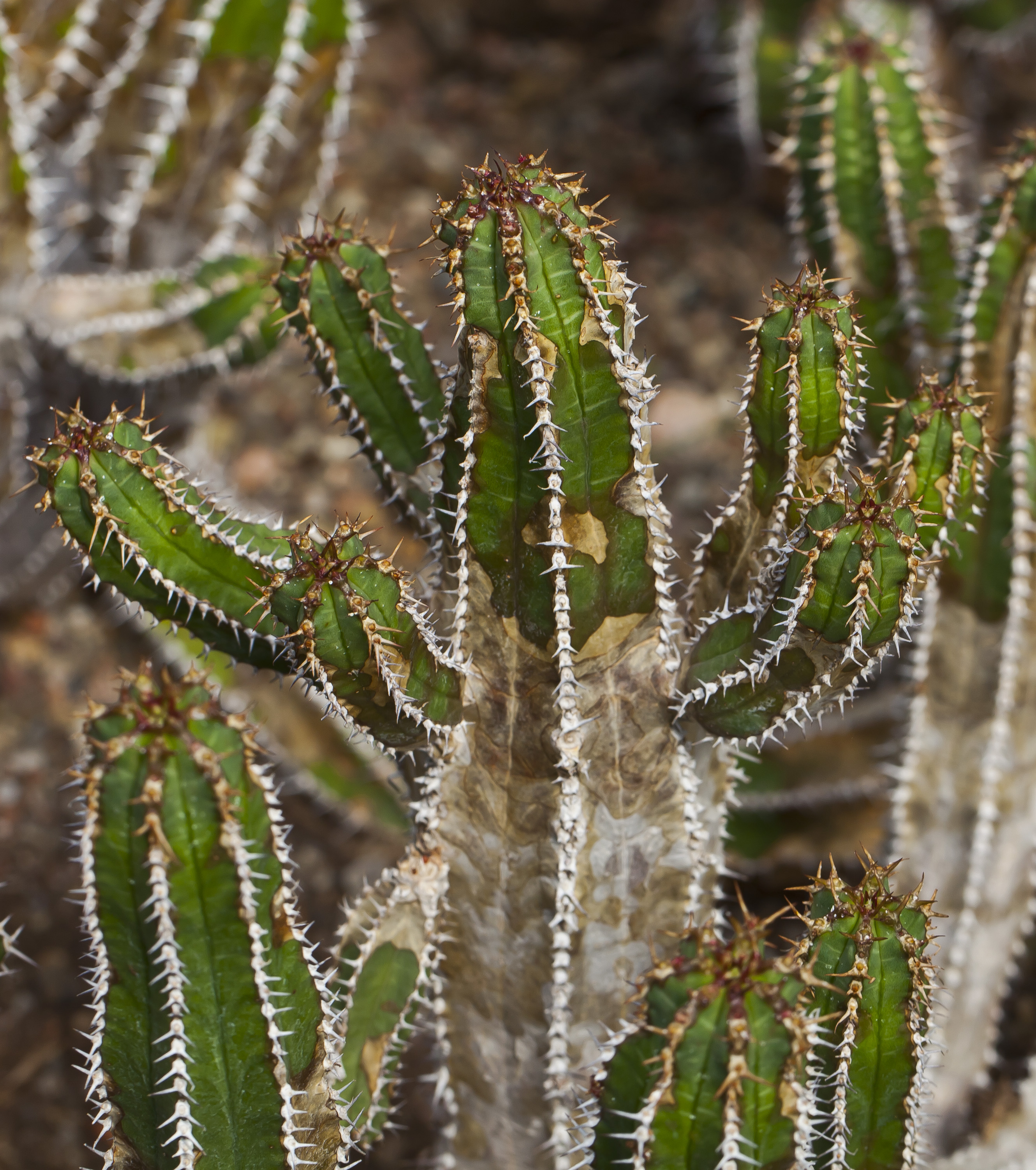 Euphorbia officinarum subsp. echinus, Tallinn Botanic Garden, Estonia